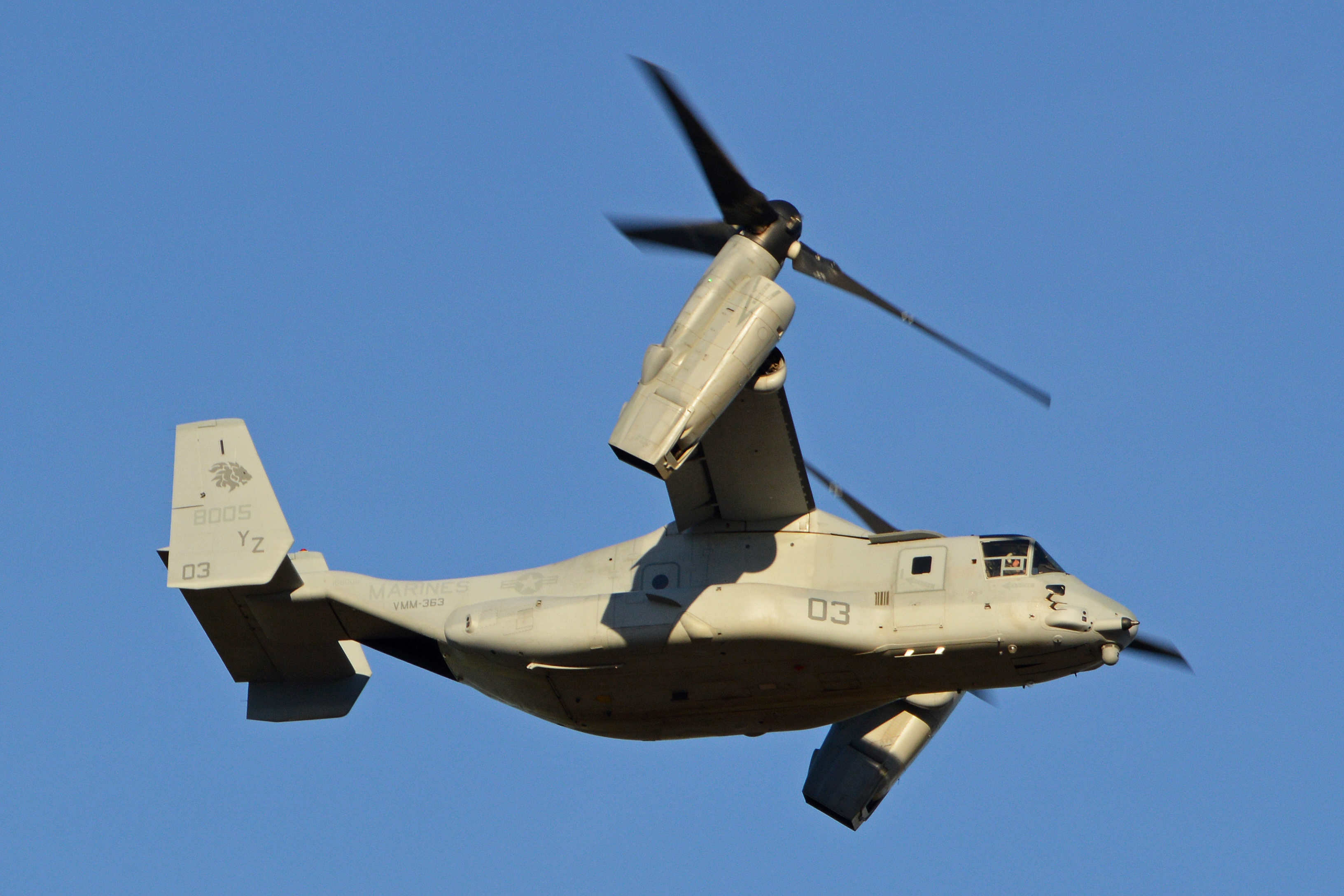 Full serial No 168005, c/n D0135. This remarkable aircraft is operated by Marine Corps unit VMM-363, the 'Lucky Red Lions'. The unit was originally formed in 1952 flying the HRS-1 and went on to fly the UH-34D and more recently the CH-53D. They converted onto the MV-22 in 2012 and are based at Miramar MCAS. This example was seen carrying out circuits at Yuma MCAS. Arizona, USA. 12-02-2014